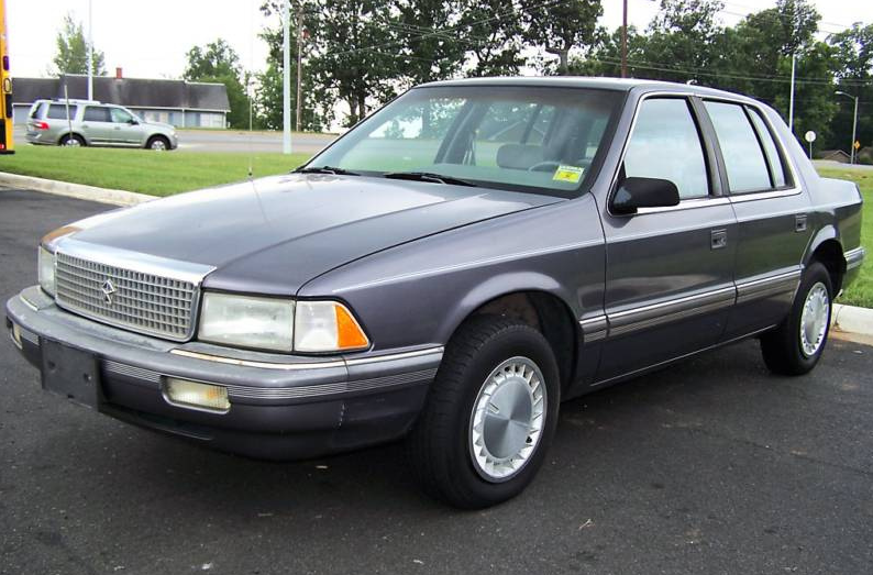 Plymouth Acclaim sedan, 1990 model